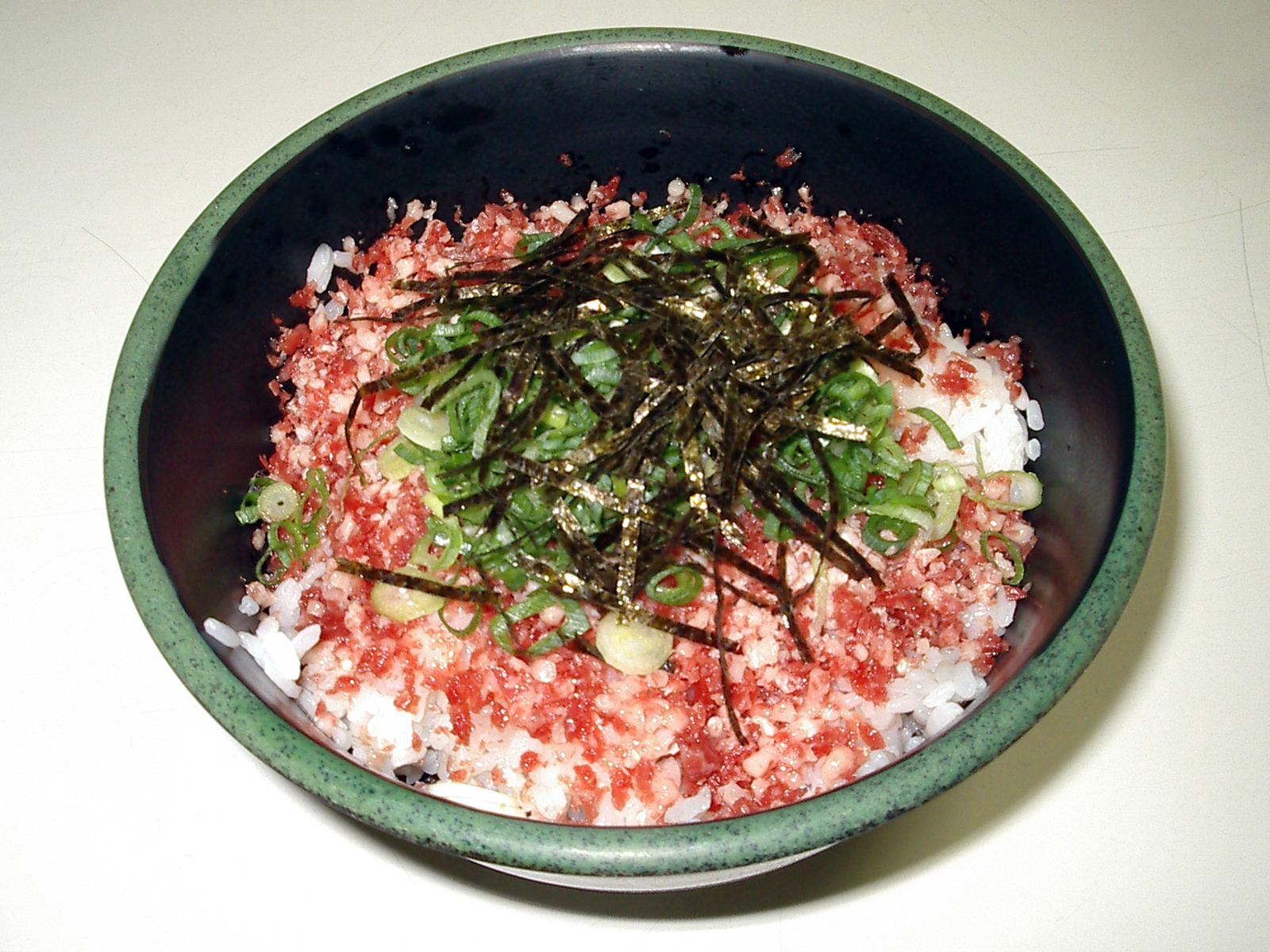 Gyutoro-donburi, or raw beef bowl. Minced raw beef, Scallion, and nori are put on hot rice.